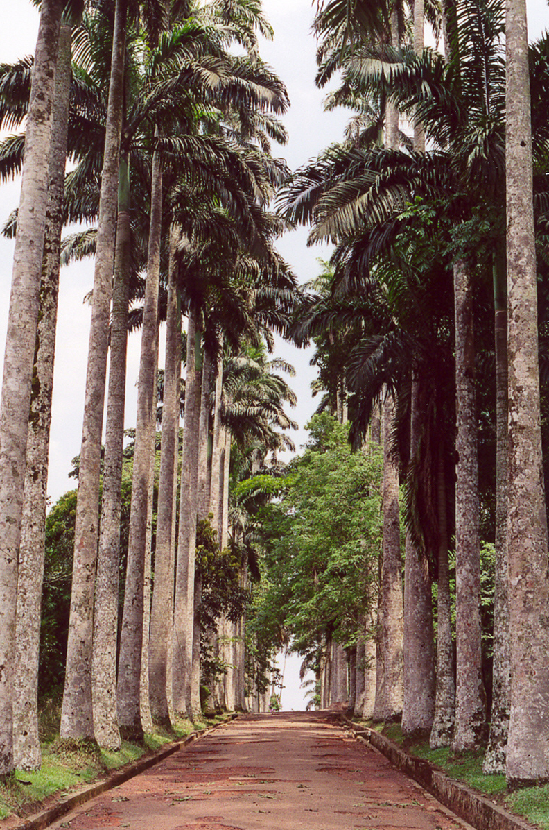 Right after the entrance of Aburi Botanic Gardens this Palms can be seen.